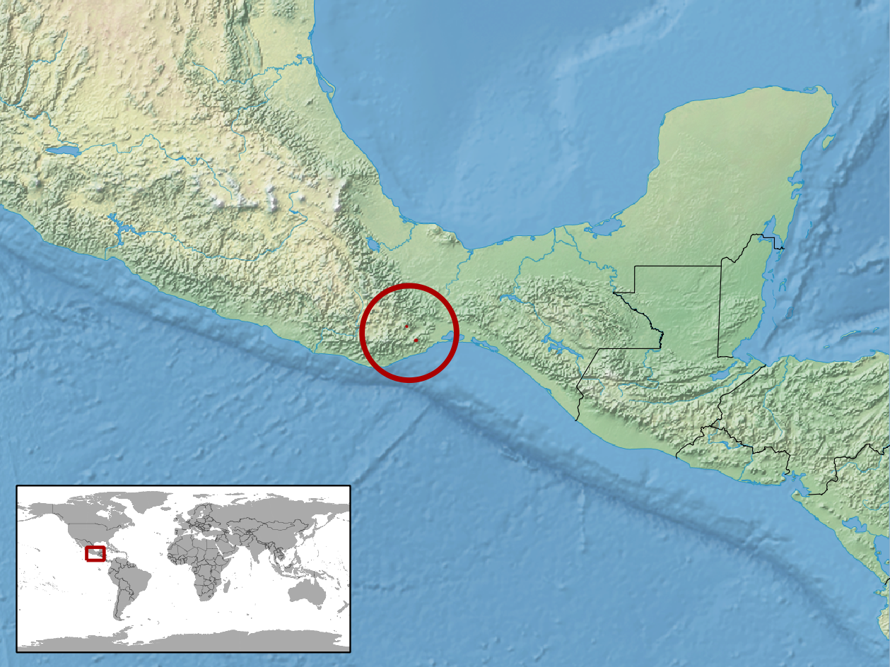 geographic distribution of Xenosaurus phalaroanthereon (Native: Mexico)